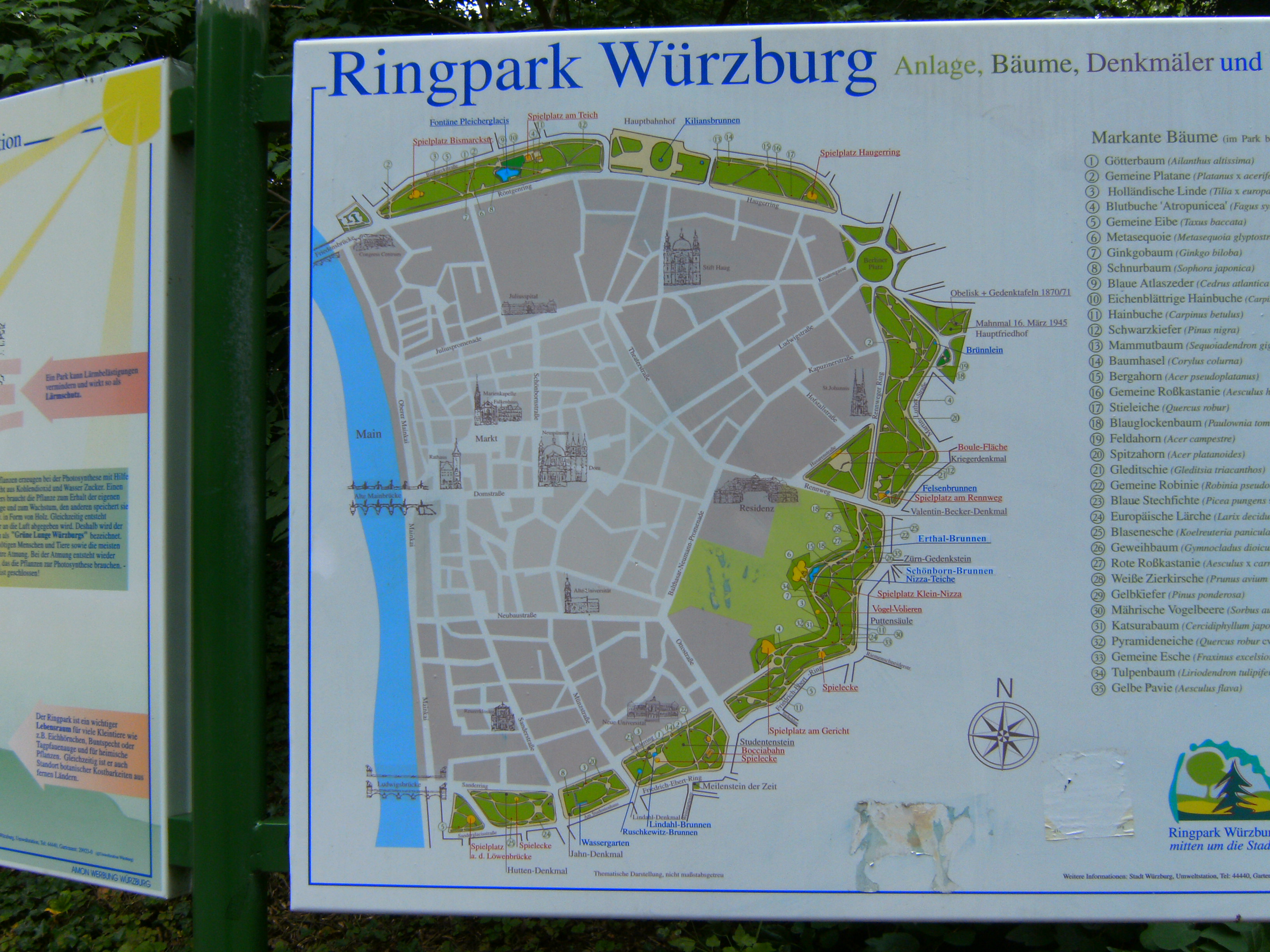 Würzburg, Germany: Ringpark around the city: map.